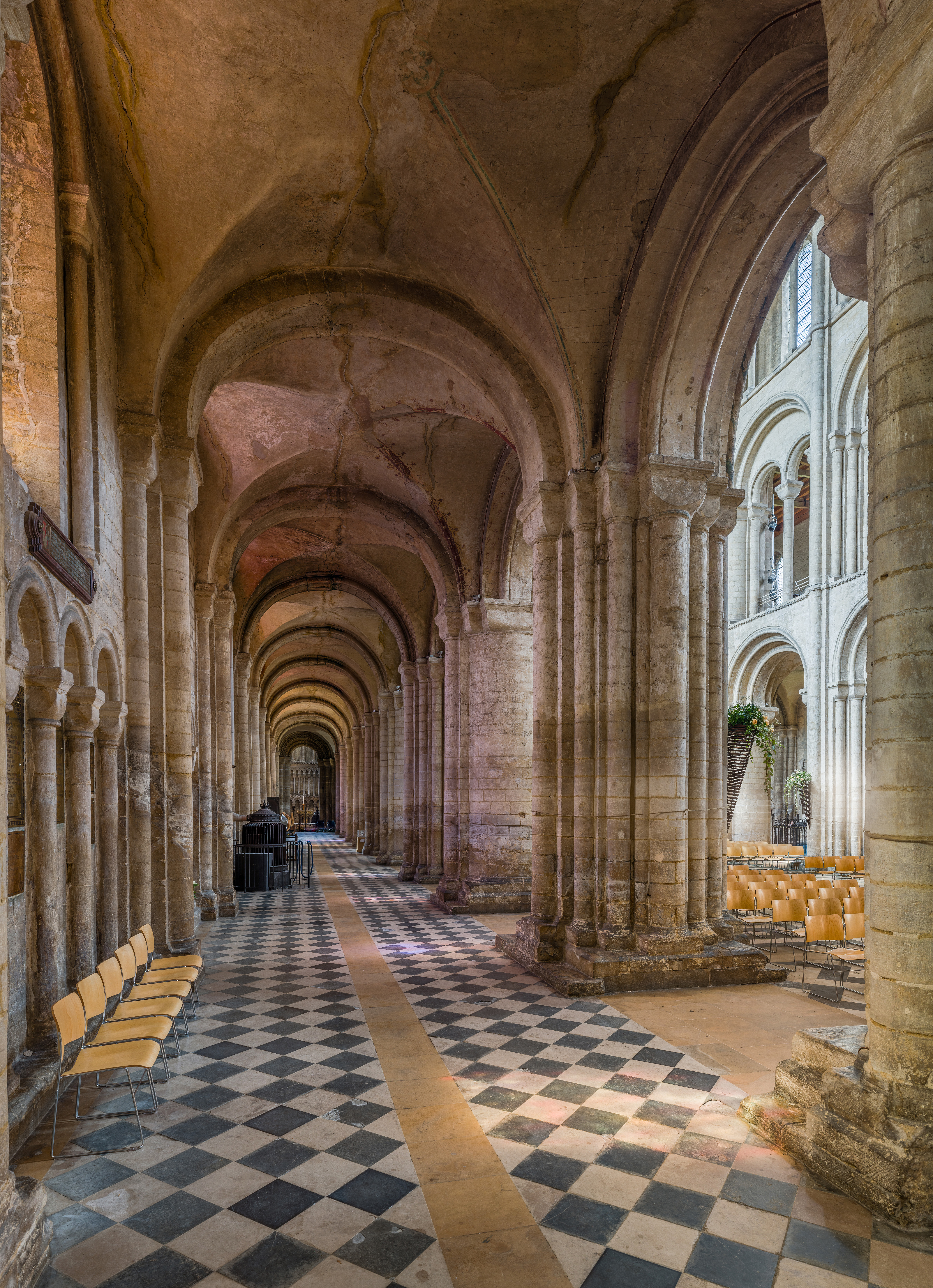 The south aisle of the nave of Ely Cathedral, Cambridgeshire, England.